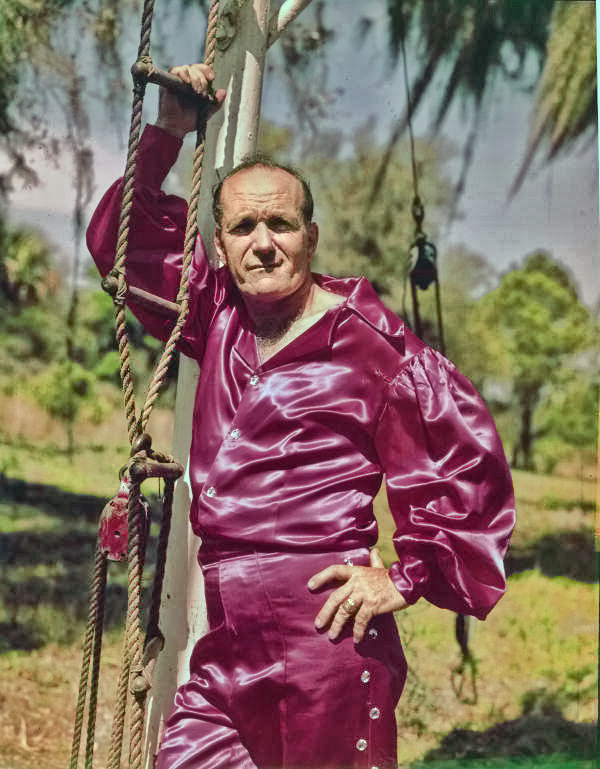 Persistent URL: Local call number: JJS0046 Title: Karl Wallenda in Sarasota, Florida Date: 1960s Physical descrip: 1 transparency - col. - 5 x 4 in. Series Title: Joseph Janney Steinmetz Collection Repository: State Library and Archives of Florida, 500 S. Bronough St., Tallahassee, FL 32399-0250 USA. Contact: 850.245.6700.